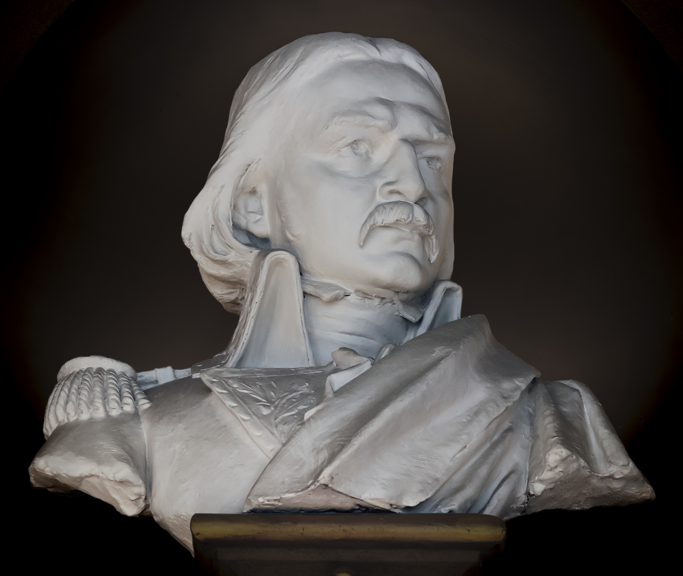 Depicted person: Dominique Martin Dupuy – French revolutionary general of brigade